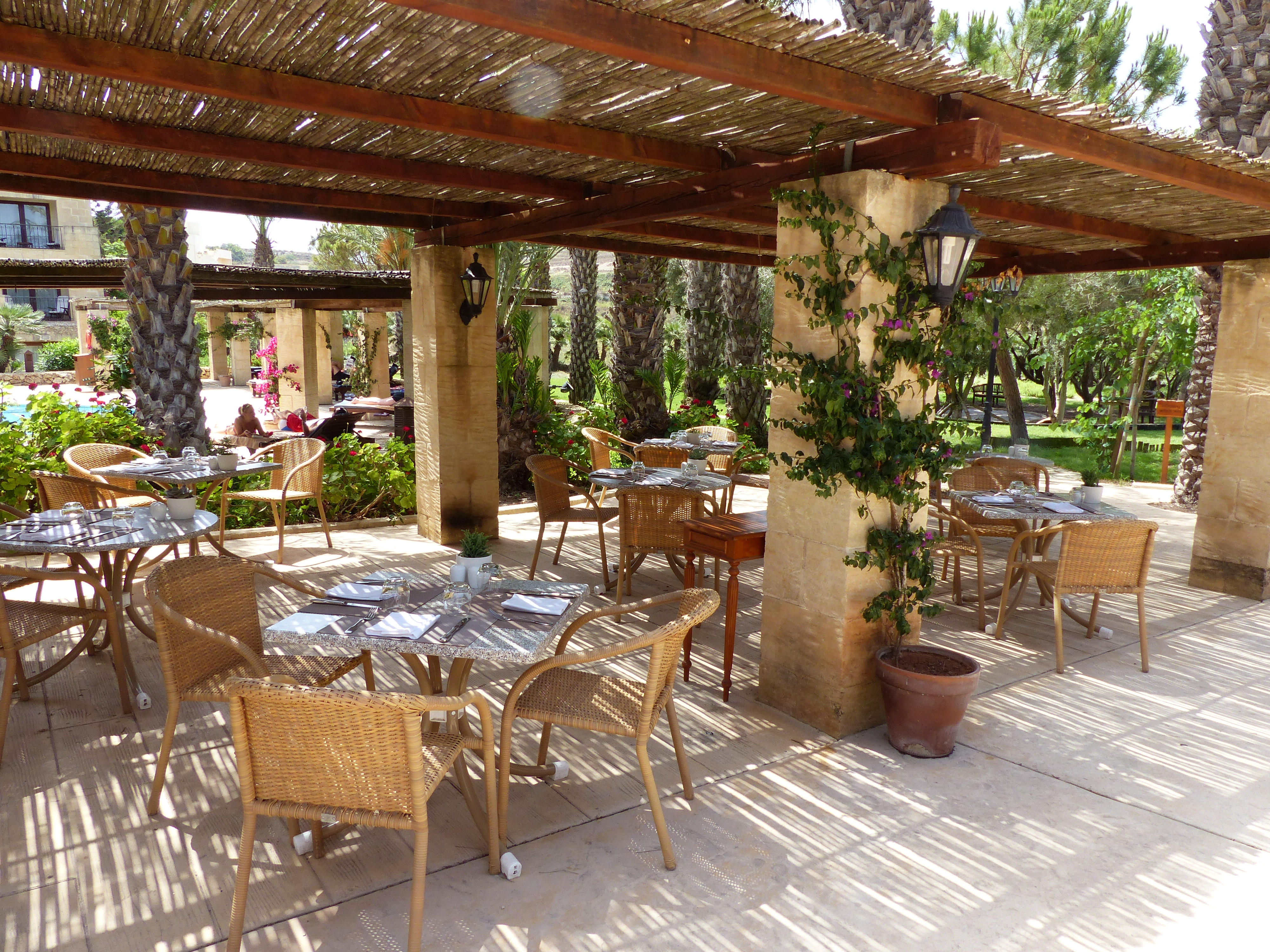 Restaurant